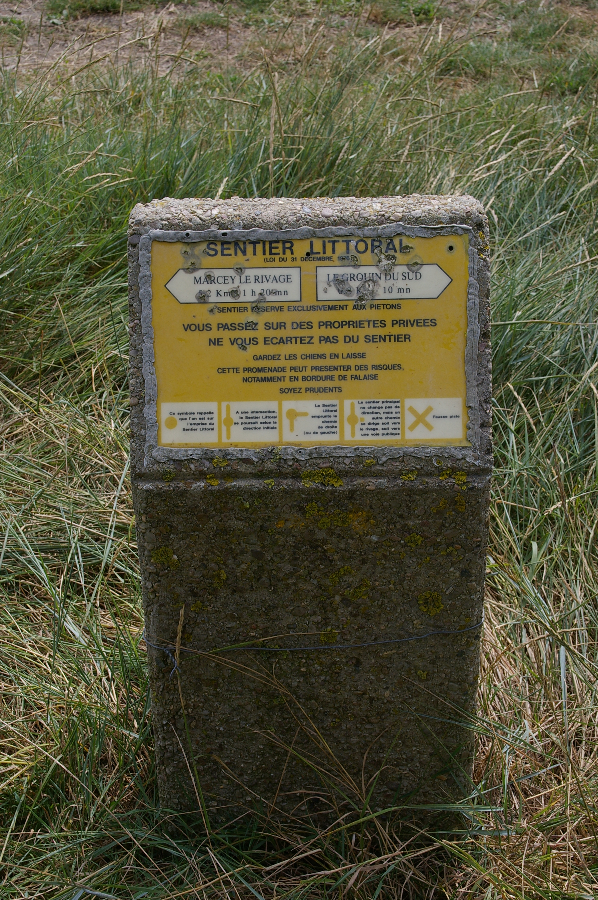 Milestone on a "sentier littoral", Mont-Saint-Michel's bay.